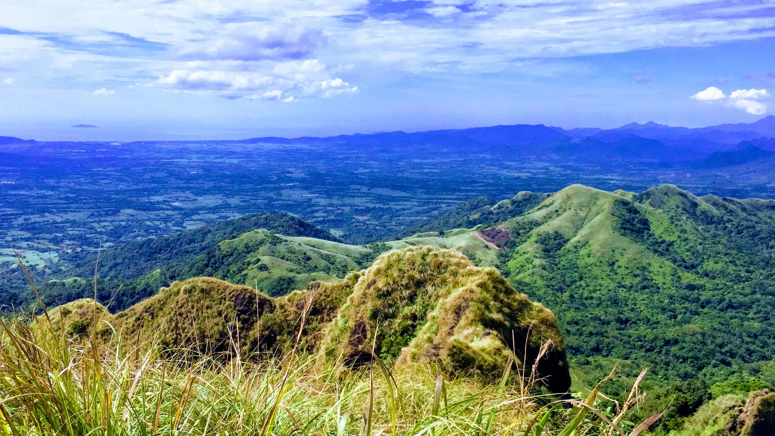 A picture of the scenery at the top of Mount Batulao.